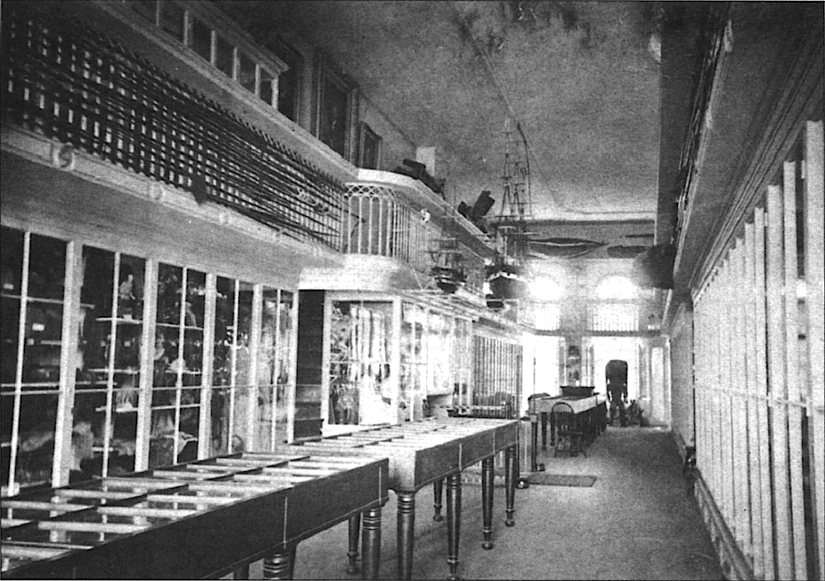 East India Marine Hall, of the Peabody Academy of Science, Salem, Massachusetts, USA